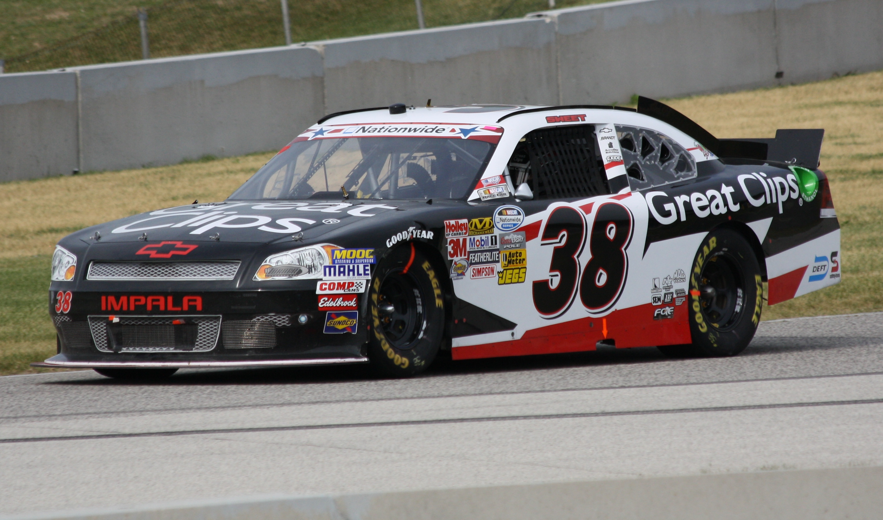 Brad Sweet NASCAR Nationwide Series car at Road America at the 2012 Sargento 200.